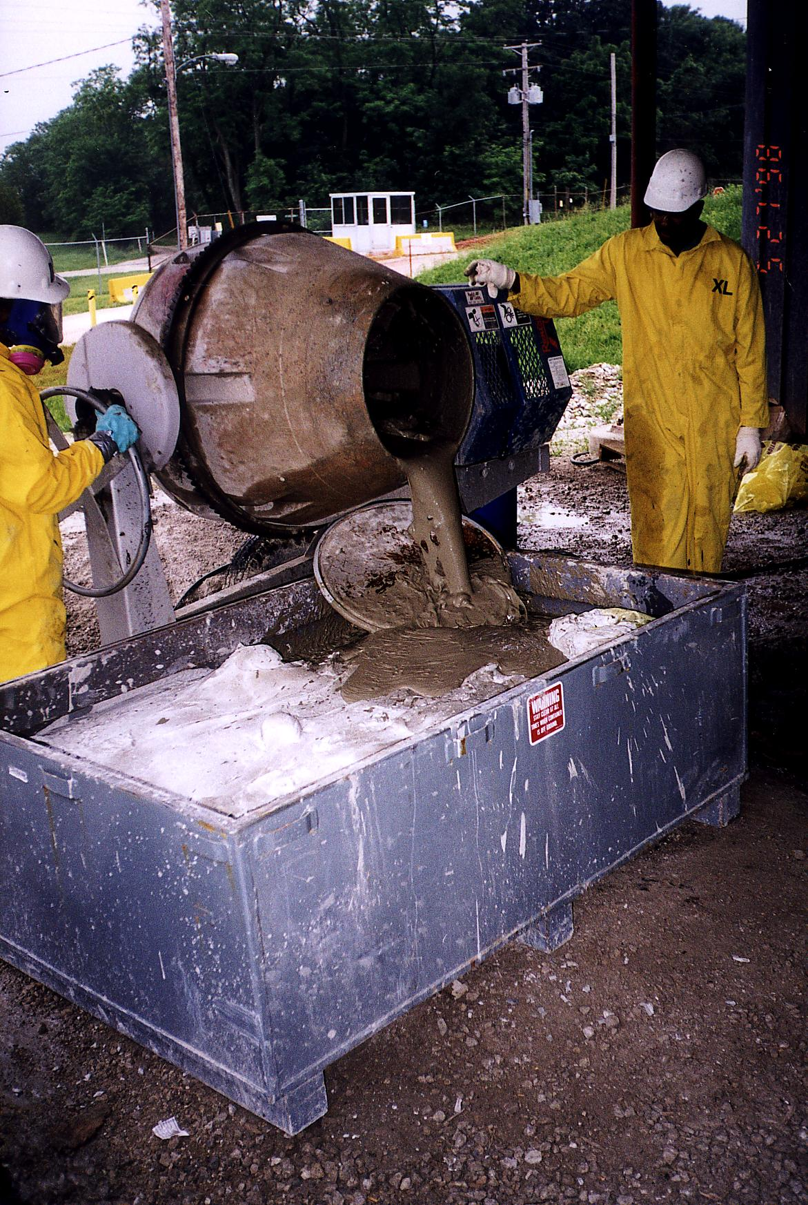 Raffinate sludge is treated with fly ash and portland cement to produce a structurally stable grout before being placed in the on-site engineered disposal cell. For more information or additional images, please contact 202-586-5251.